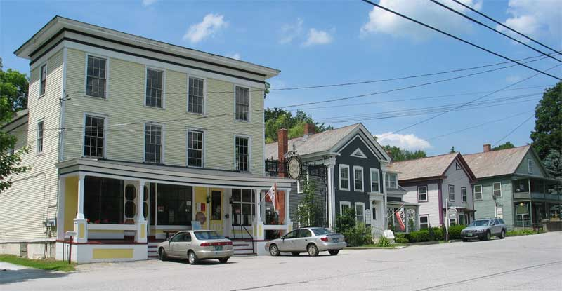 Photograph of Danby, Vermont main street